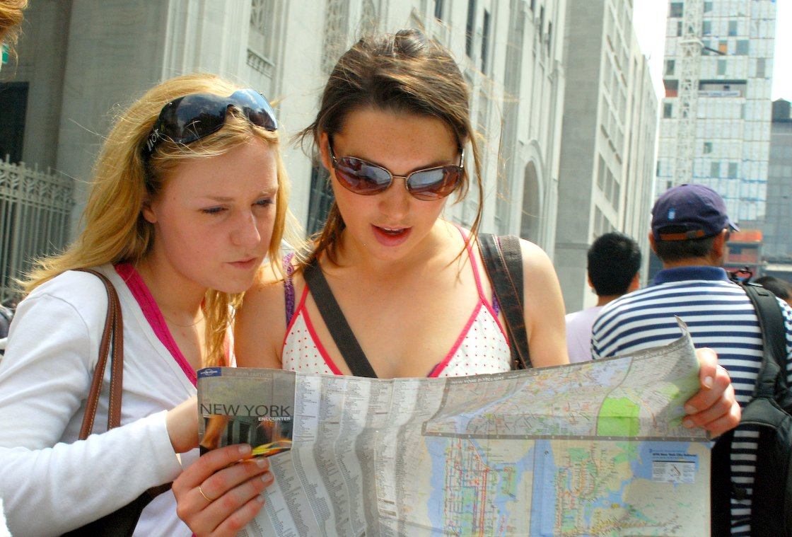 Two girls looking for something on a map of New York City